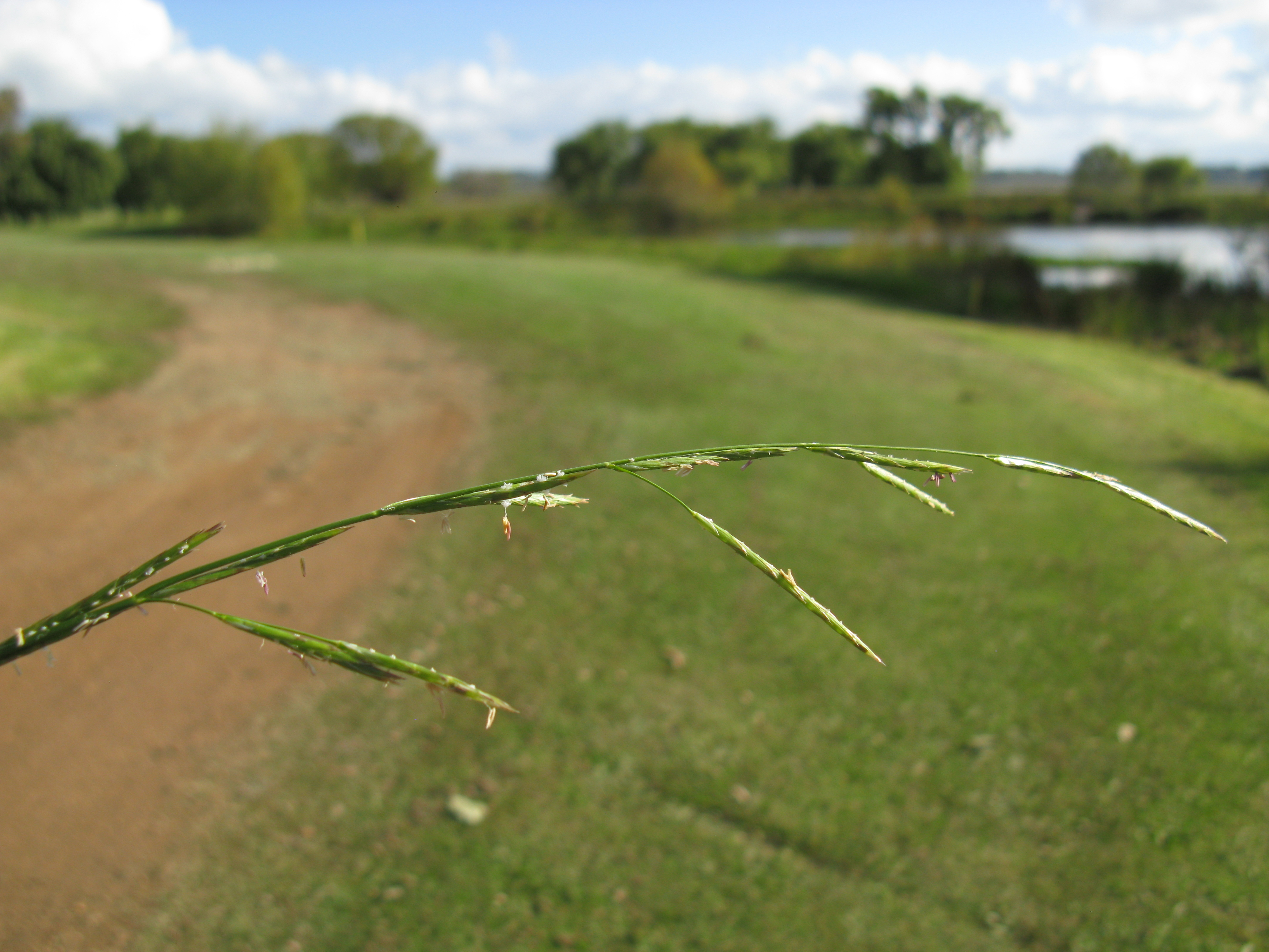 Flowerheads are straight or curved, narrow panicles; 20-35 cm long and exerted or partially enclosed in the leaf sheath.